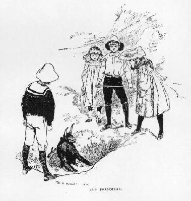 Frontispiece of Edith Nesbit's "Five Children and It". (Original upload said "Illustration by H. R. Miller. Frontispiece from the 1902 edition.")